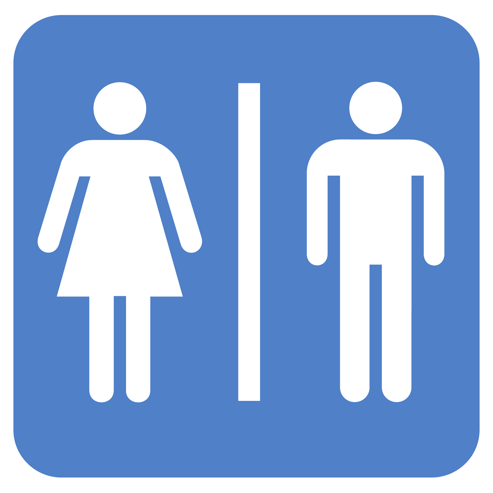 Bathroom info graphic sign showing both genders.